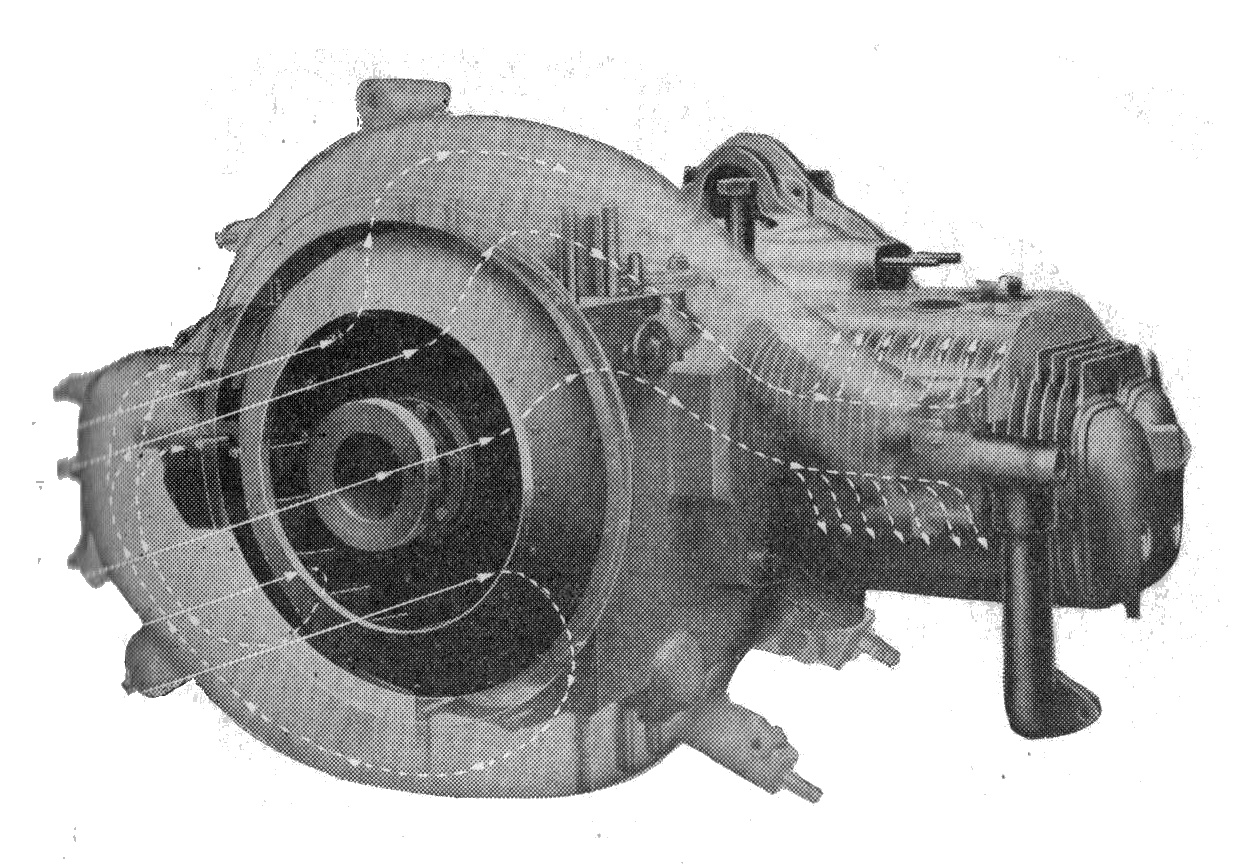 As the only 1930s flat-4, this is presumably a Greif Junior engine